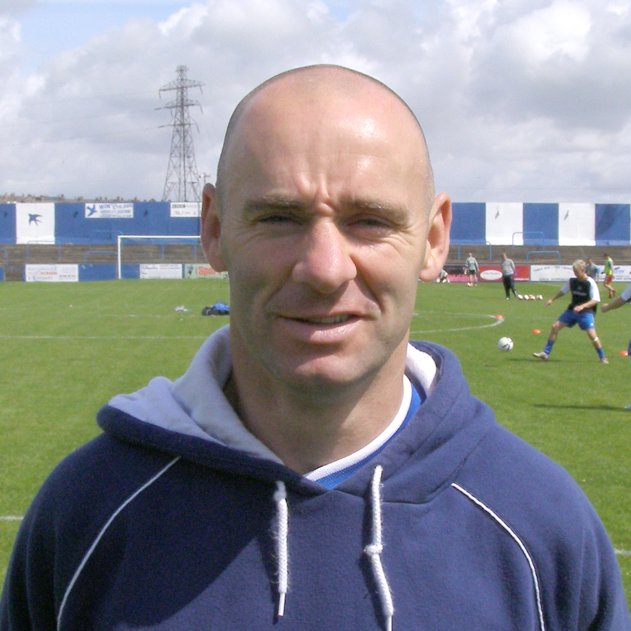 Joint manager Darren Sheridan in pre-season training, July 2007. Taken at Holker Street by Dave C